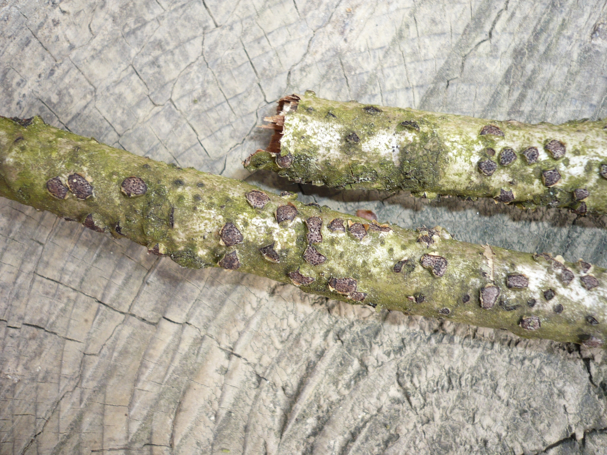 The fungus Diatrypella quercina. Specimen photographed in Botwald, Litzelsdorf, Bezirk Oberwart, Burgenland, Austria.